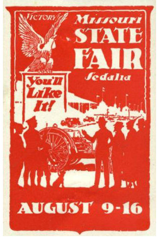 The Missouri State Fair at Sedalia, MO: "cinderella" poster stamp c.1930.